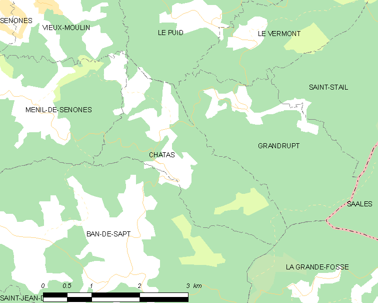 Map of French municipality Châtas